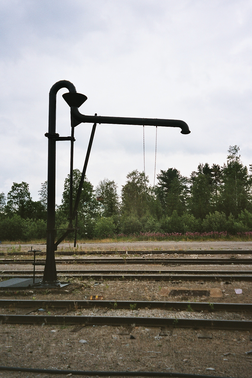 Watercrane of Inlandsbanan in Arvidsjaur.